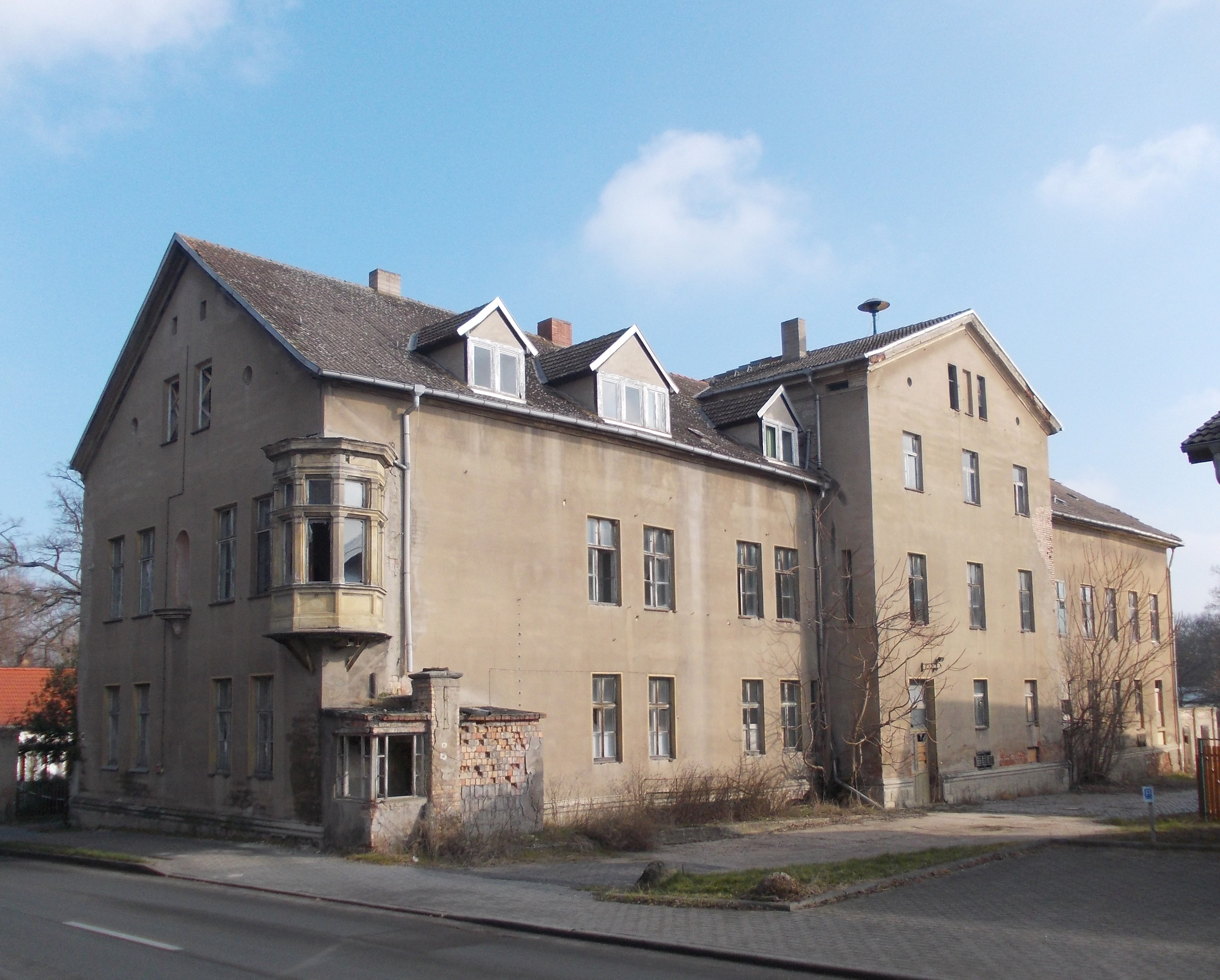 Salzmünde manor house (Salzatal, district: Saalekreis, Saxony-Anhalt)